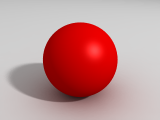 van engelse wikipedia, met tekst: "Radiosity rendering example. Created in POV-Ray and edited in the GIMP. Made by Wapcaplet and released into the public domain." This work has been released into the public domain by its author, :en:User:Wapcaplet. This applies worldwide. In some countries this may not be legally possible; if so: User:Wapcaplet grants anyone the right to use this work for any purpose, without any conditions, unless such conditions are required by law.